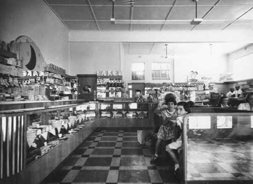 Blue Moon Café, Alinga St, Civic Centre, Canberra